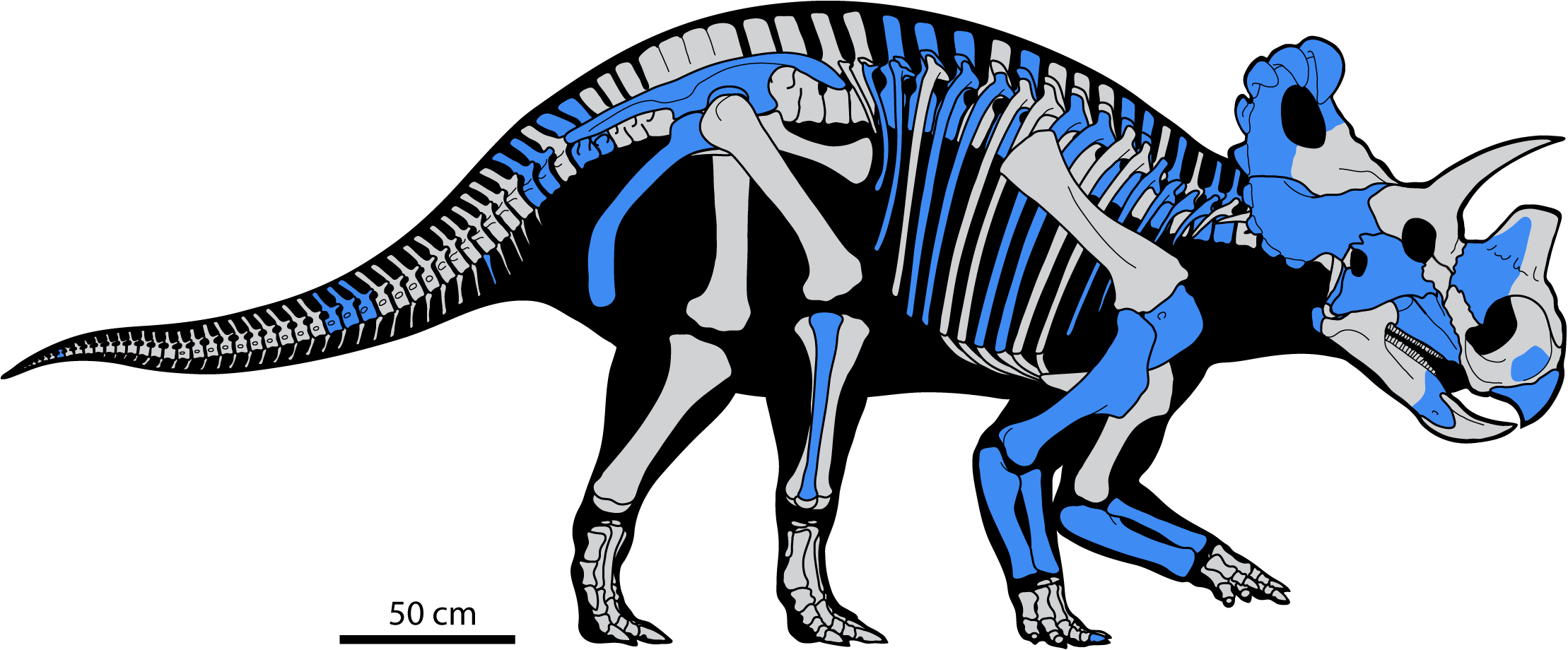 Skeletal reconstruction of Wendiceratops pinhornensis. Elements represented in the material collected from the bonebed are indicated in blue.